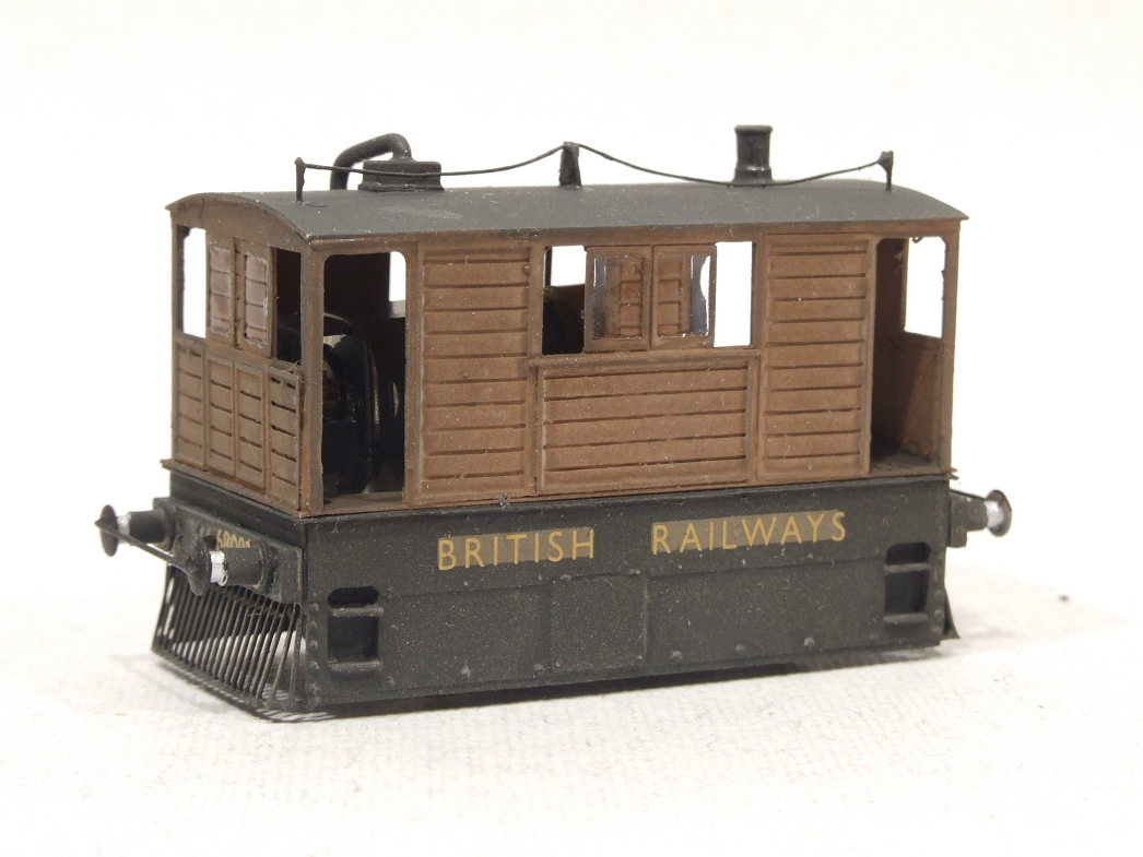 A 3mm scale, 14.2mm gauge Y6 tram locomotive as used on the Wisbech and Upwell Tramway. Model is built from an etched brass kit and powered by a BullAnt bogie.